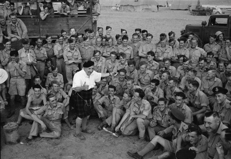 Royal Air Force Operations in the Middle East and North Africa, 1939-1943. Will Fyffe, the famous Scots comedian, entertains men of the RAF Regiment in the open air at Hammamet, Tunisia, during his tour of North Africa.